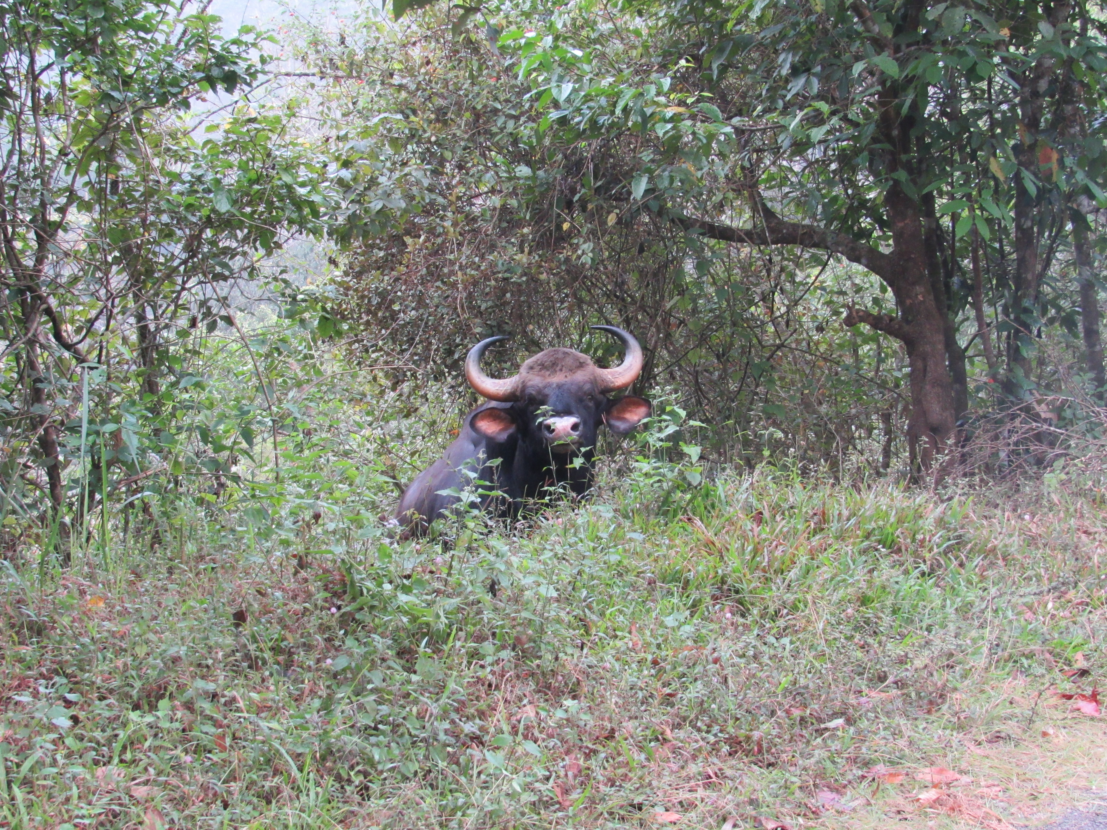 Spotted in Gavi forest range